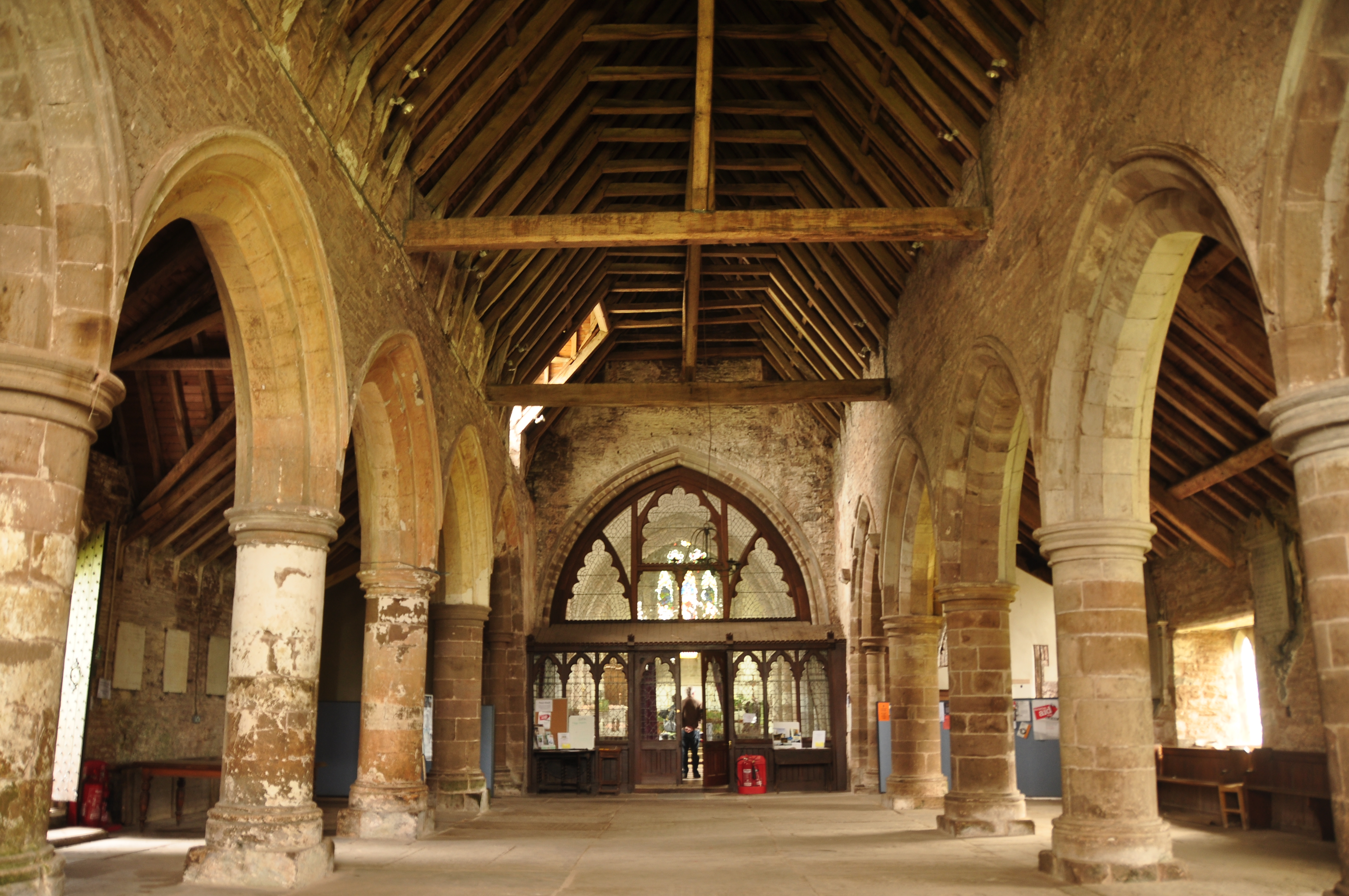 St Nicholas Church, Grosmont nave